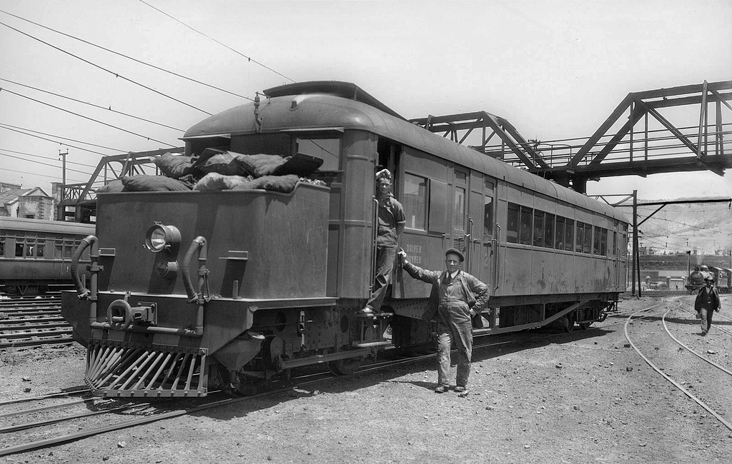 South African Railways Clayton Railmotor no. RM11 at Salt River, Cape Town